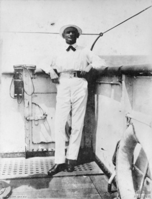 Part of AWM caption : Informal portrait of Fregattenkapitän Karl August Nerger, Commander of the German armed merchant raider, SMS Wolf, standing on the bridge of the SMS Wolf, dressed in tropical whites.